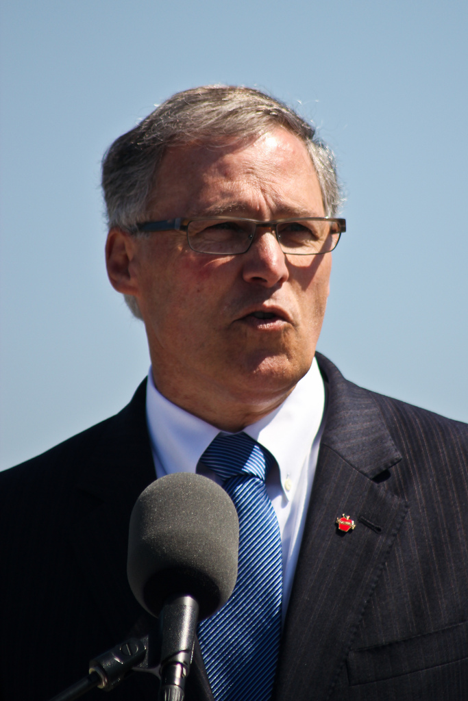 Washington Governor Jay Inslee revealed his plans to keep production of Boeing's 777-X in Washington.